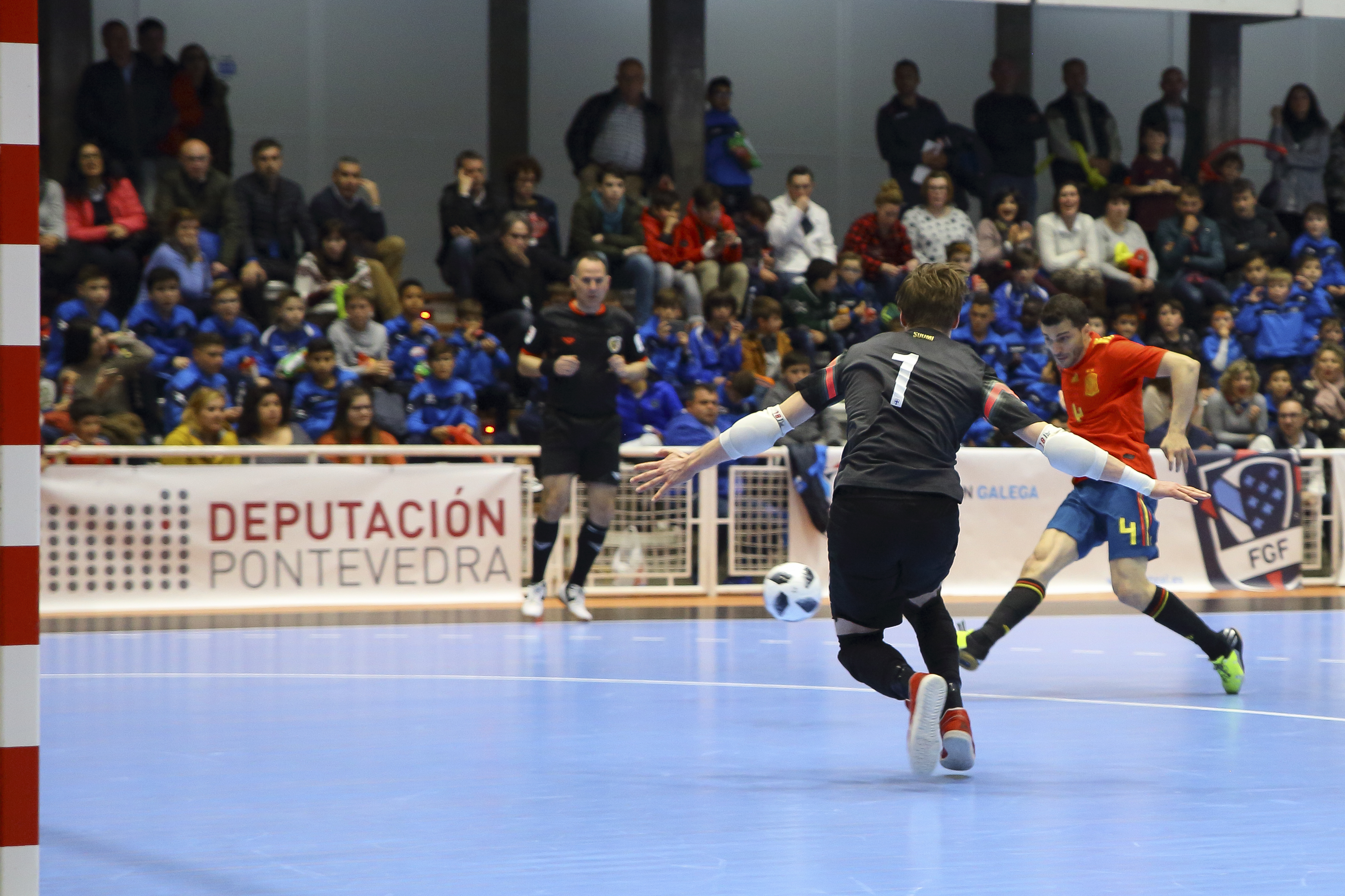 Futsal international friendly match between Spain and Finland at Pabellon Municipal de Pontevedra on April 2, 2018 in Pontevedra, Spain.